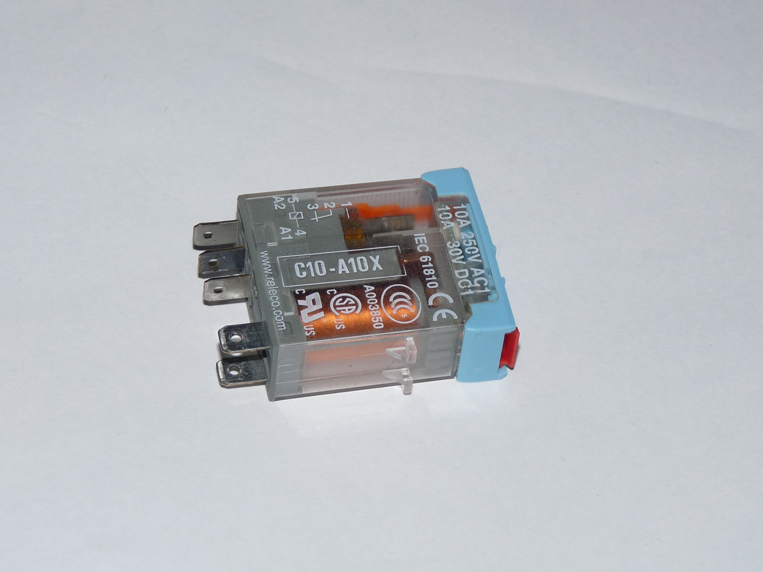 Releco relay